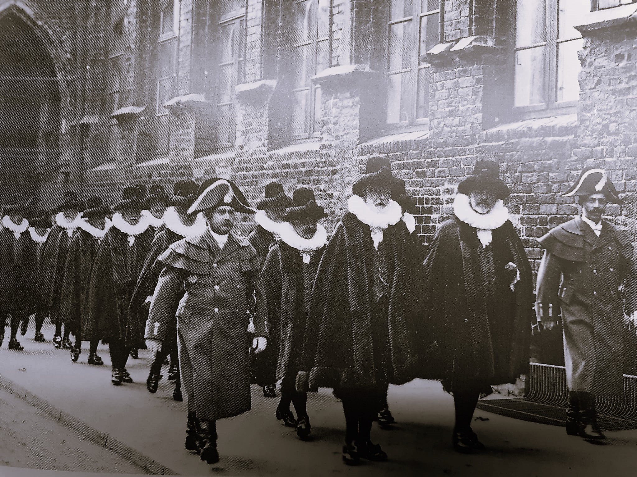 The Senators of the Free City of Lübeck on their way to the centennial celebration of the Battle at Leipzig